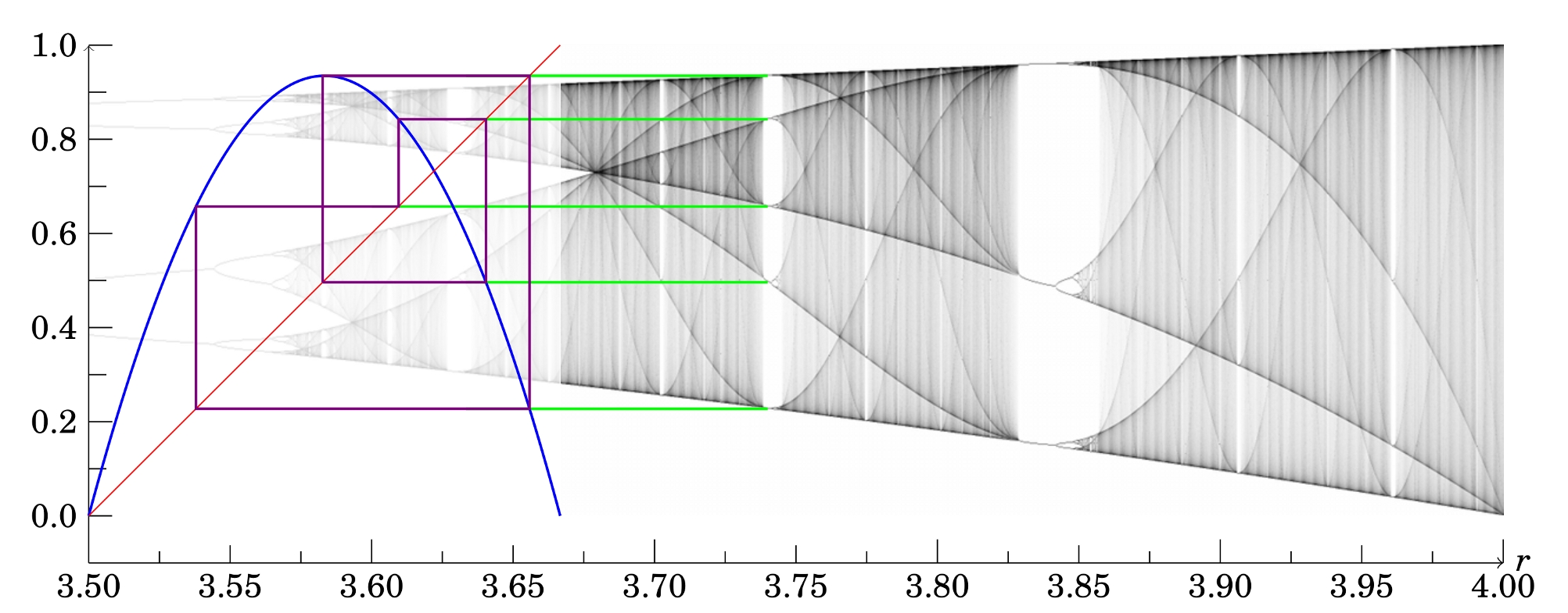 Cobweb Plot of the Logistic Map at point 3.742 showing the relation the the orbit map. Shown is a stable 5-cycle.